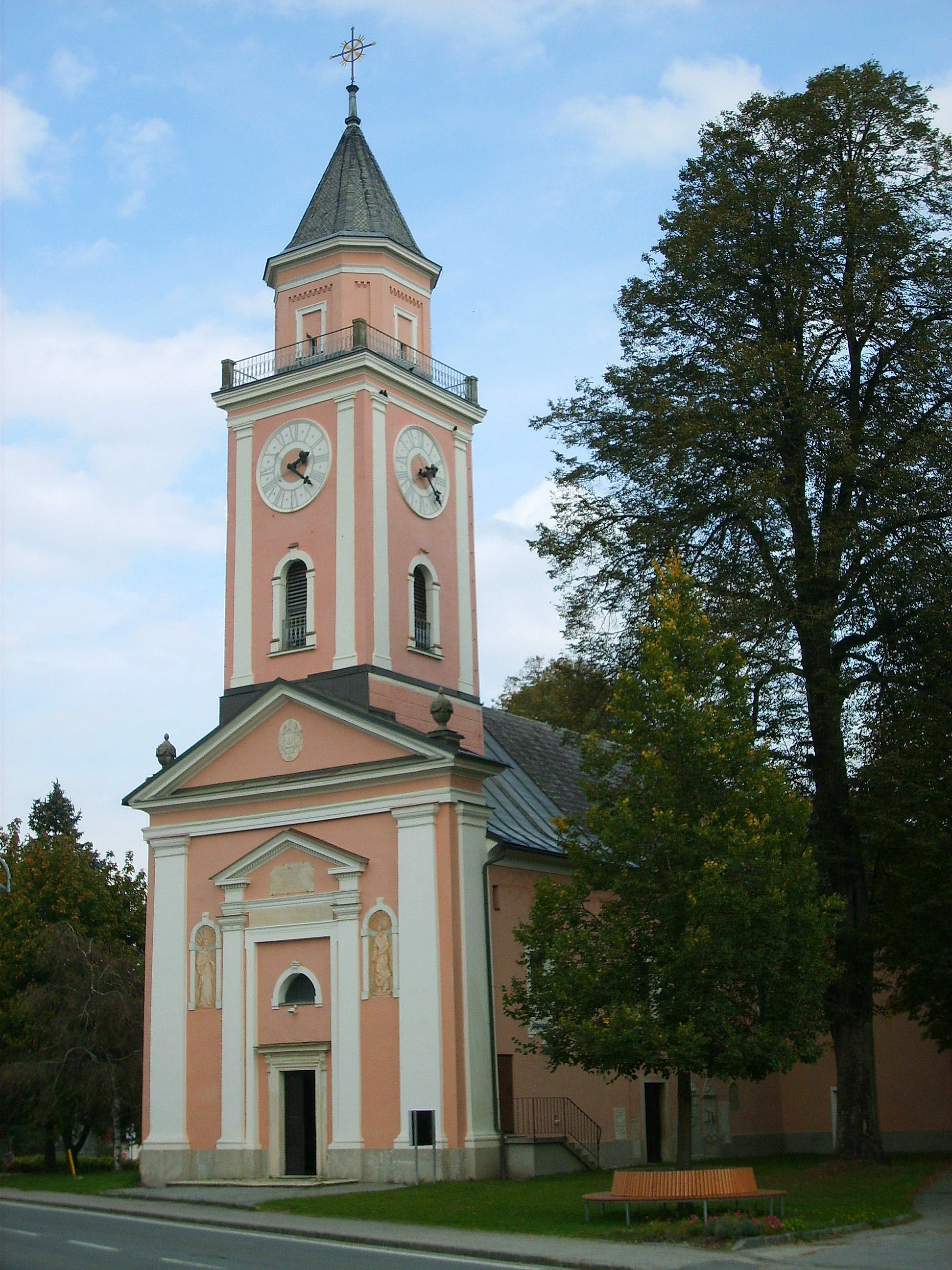 Pfarrkirche von Rosegg Parish church of Rosegg